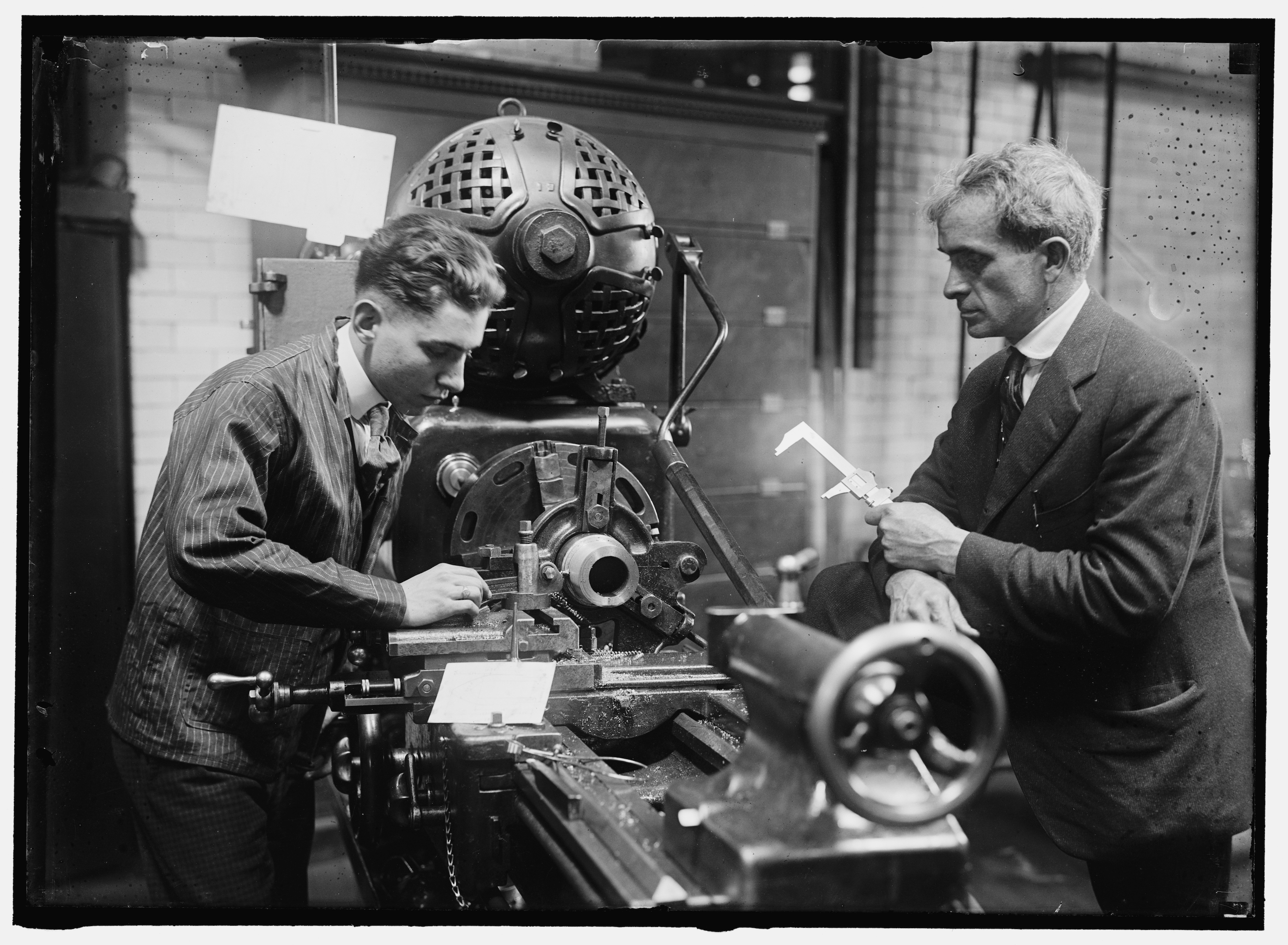 A trainee machinist turns a practice shell on a metal lathe, presumably to be used in naval training. An instructor observes his work. Image from US Library of Congress (call number LC-H261- 2780). Image resized from 10202 by 7487 pixels to 3061 by 2246 pixels and converted from TIFF to JPEG format prior to upload.